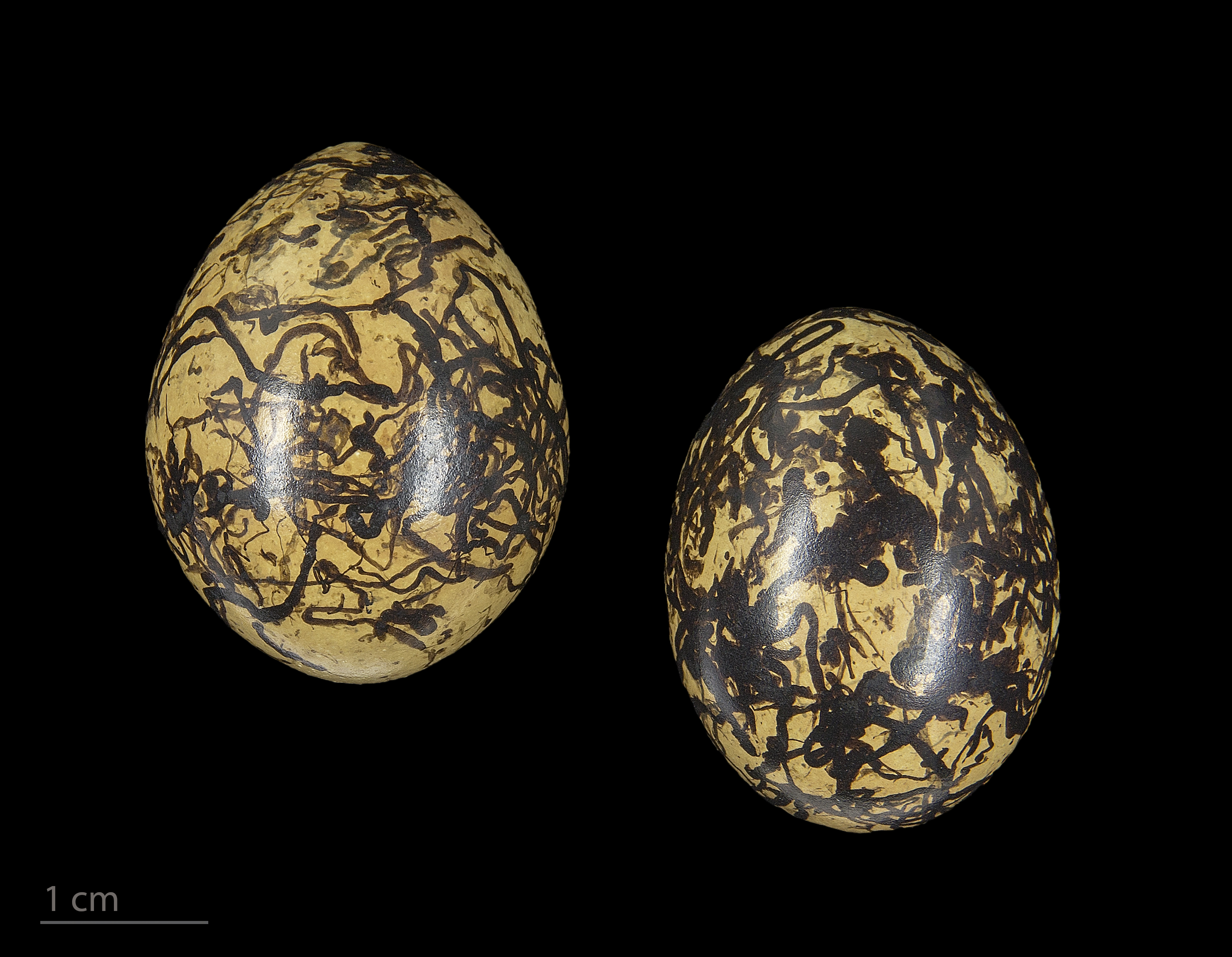 Egg of northern jacana Collection of Jacques Perrin de Brichambaut.